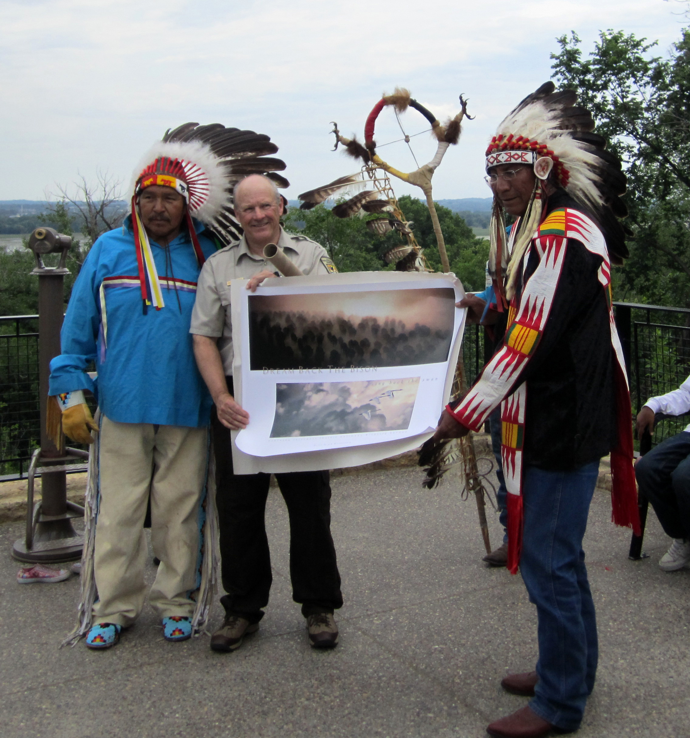 Photo by Chuck Traxler/USFWS